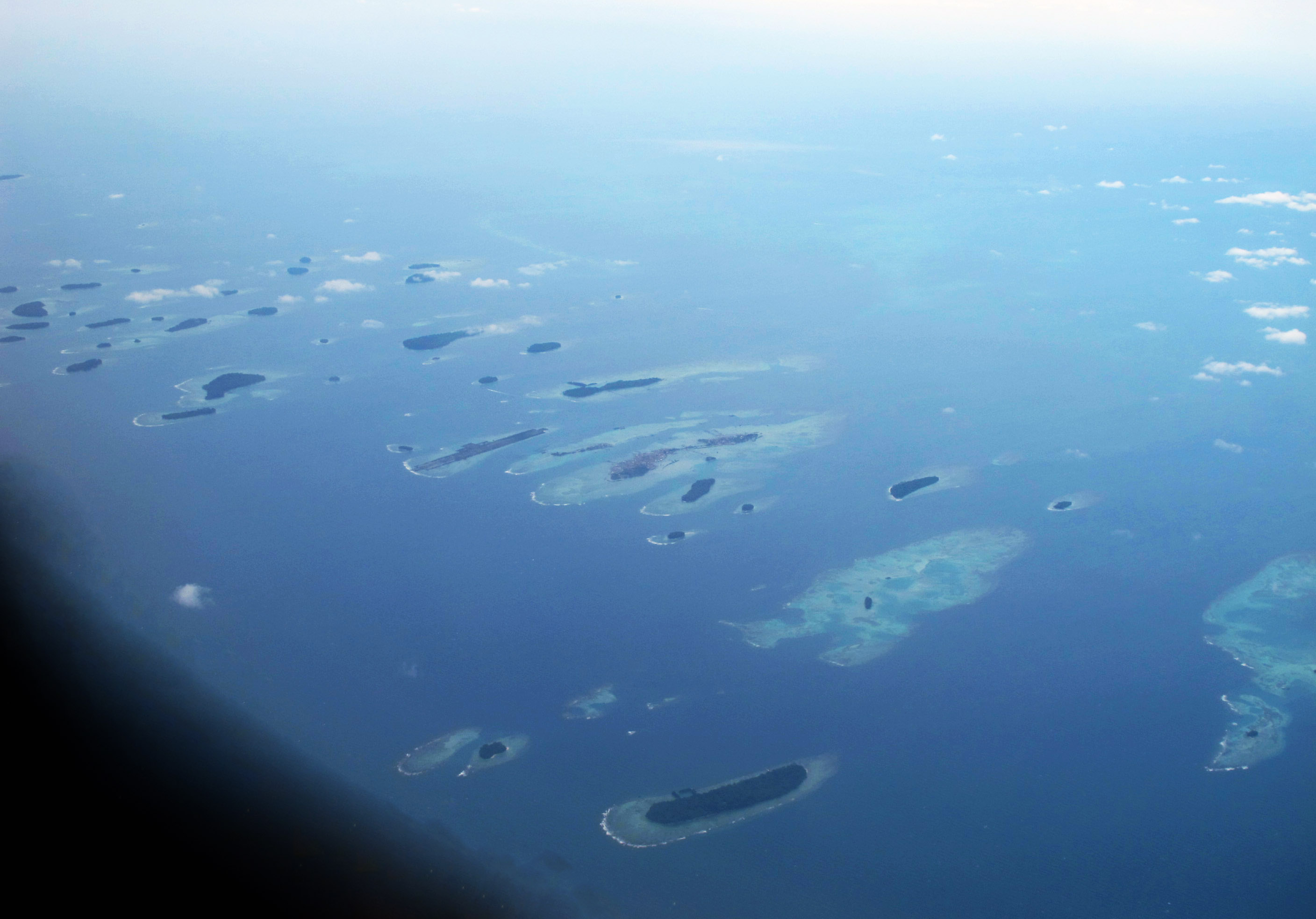 An airplane shot of the island chain of Kepulauan Seribu to the north of Jakarta. The direction of north is approximately 10 o'clock in this photo. The picture is centered on the densely populated Kelapa-Harapan Island in the center, the island is linked with a bridge on the east-west direction as well as a pier to the south. To the north of the island is a rectangular shaped Panjang Island, the only island in Kepulauan Seribu which contains a landing strip.